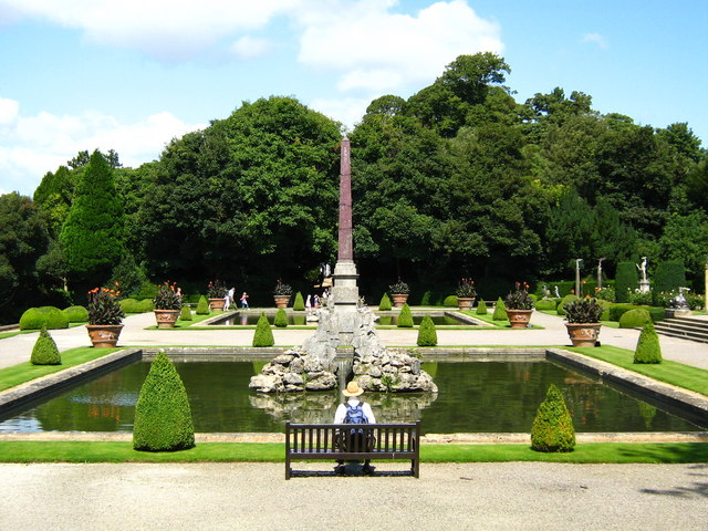 Lower formal gardens, Blenheim Palace, Oxfordshire